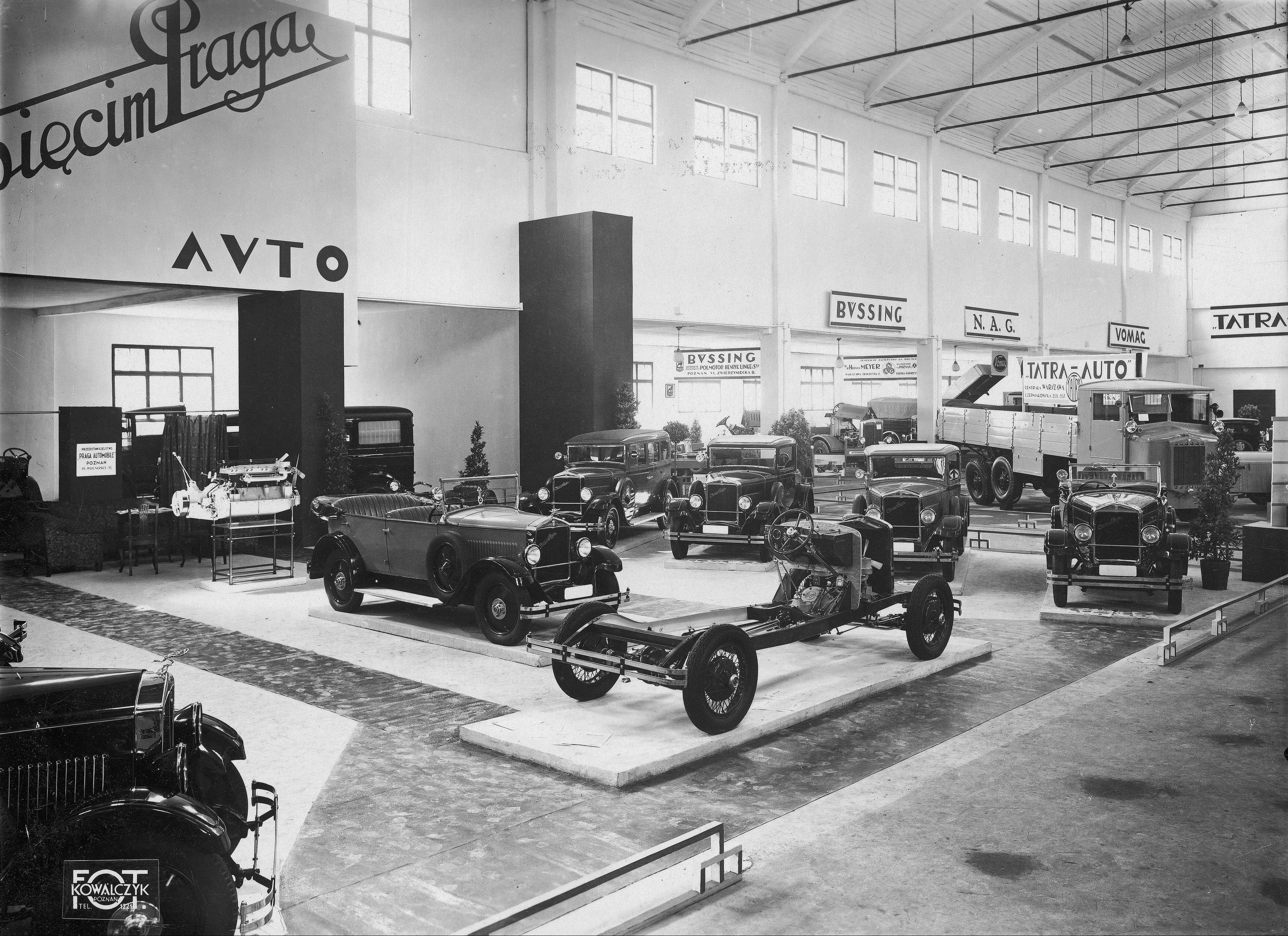 International Exhibition of Communication and Tourism in Poznań.